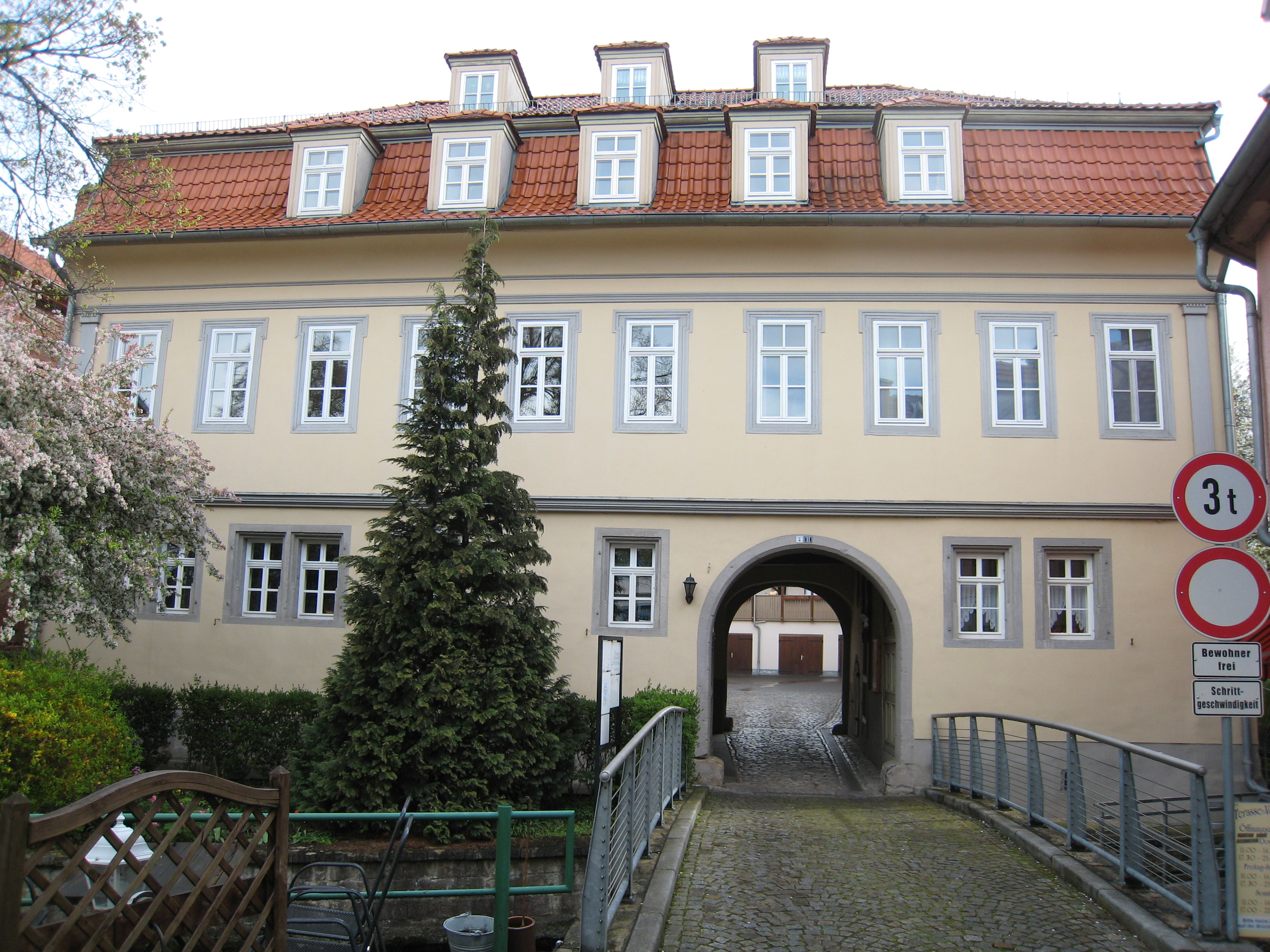 Längwitzer Straße 11